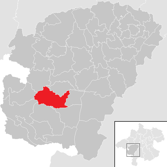 District Vöcklabruck